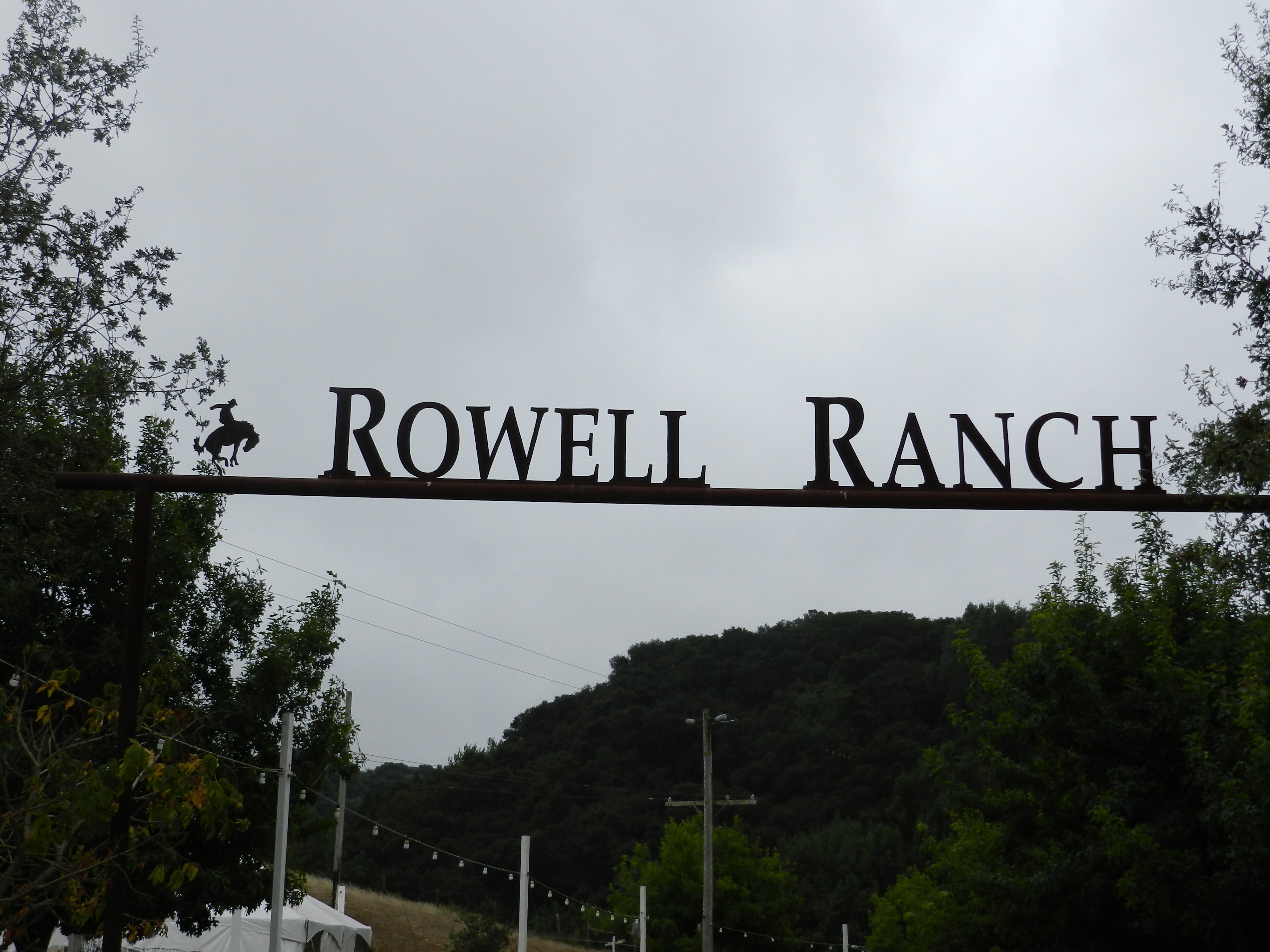 Rowell Ranch, front gate, at Rowell Rodeo Park, near Castro Valley, california, a division of Hayward Area Recreation and Parks District